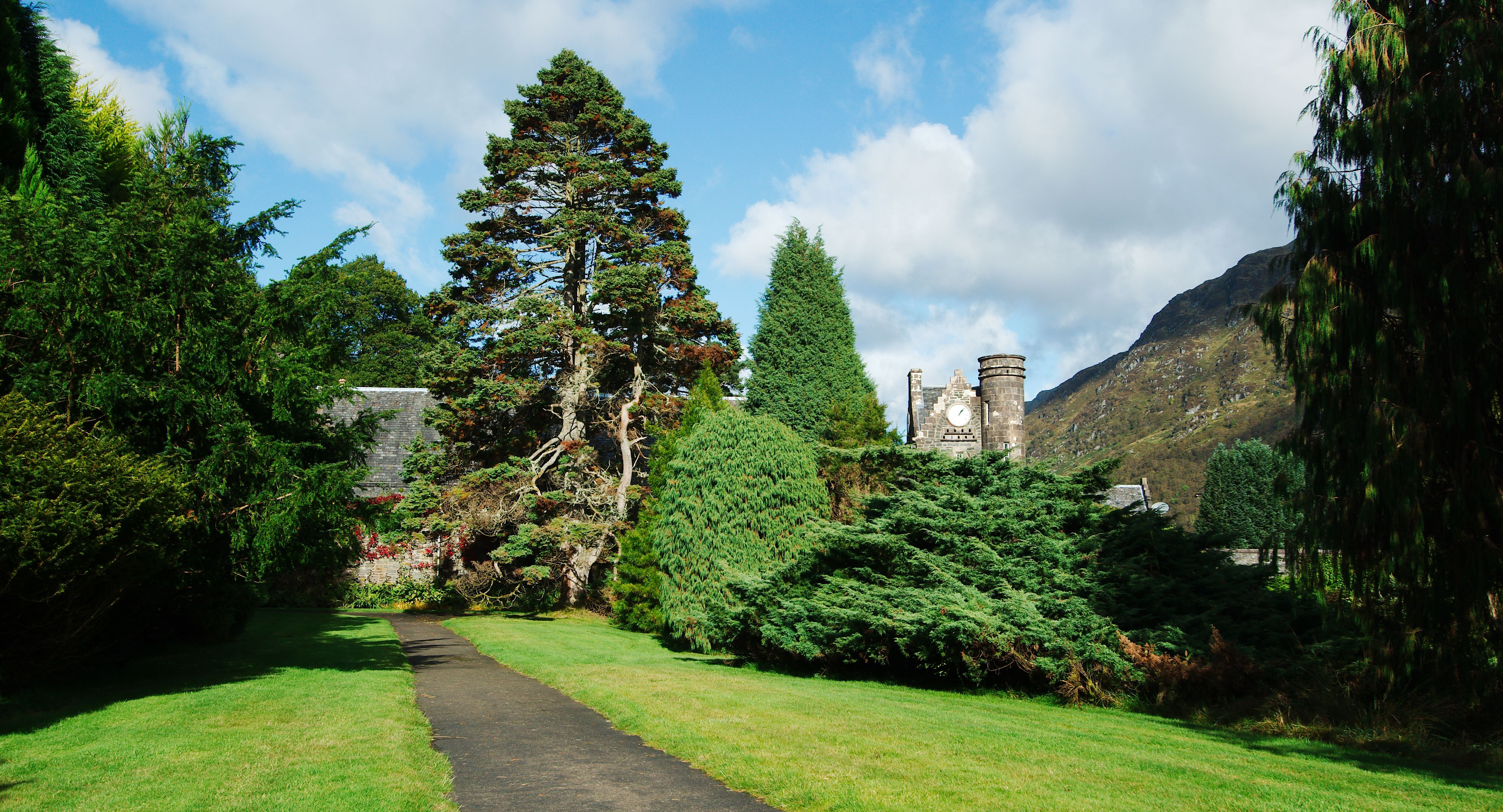 2015 October Holidays